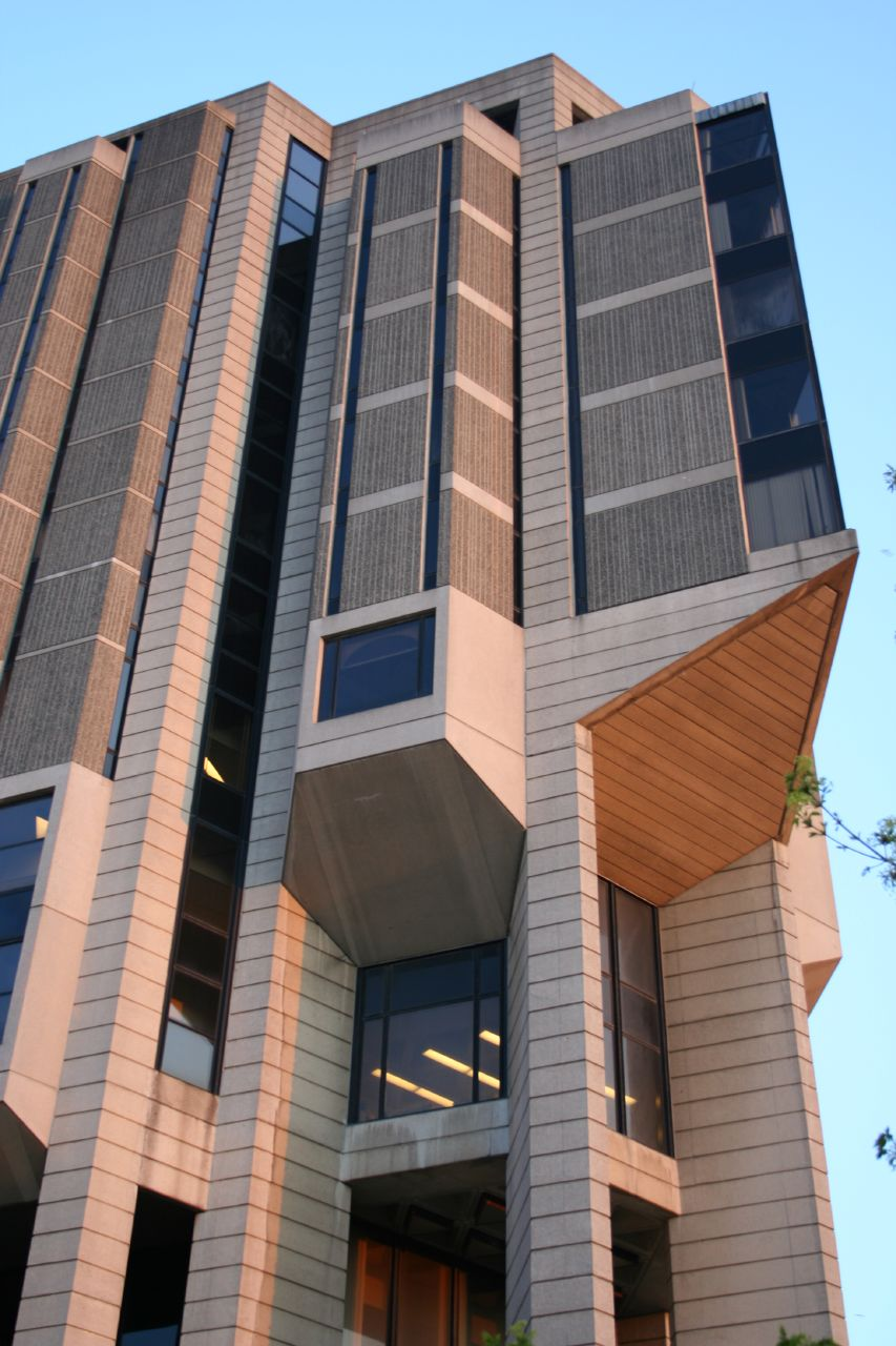 Robarts Library, also known as "Fort Book", at the University of Toronto.